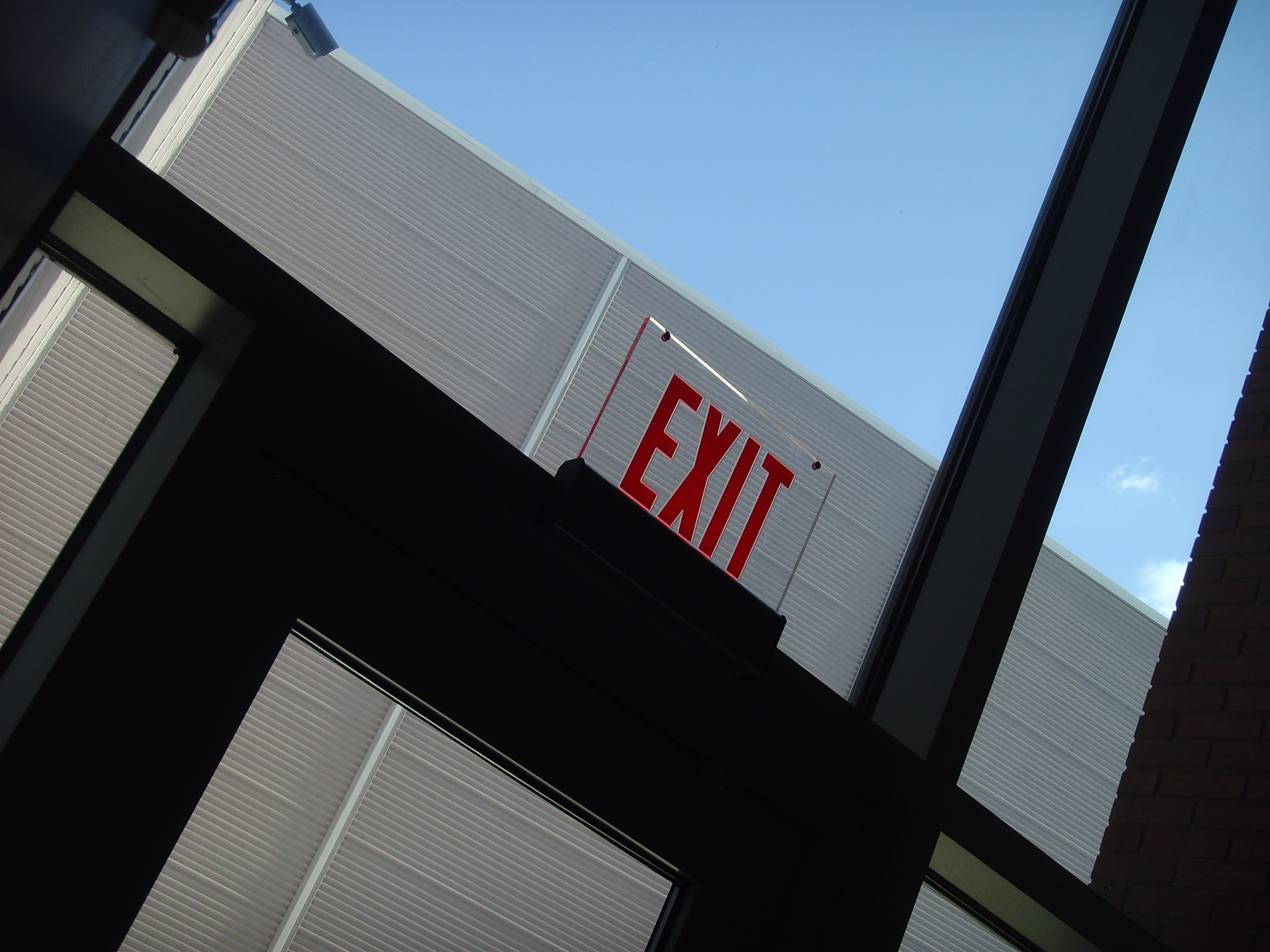 0119 Allentown - America on Wheels Auto Museum